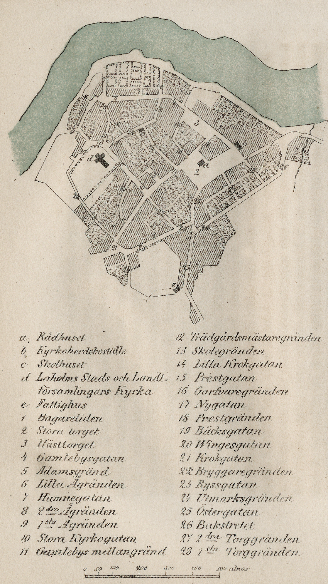 Map from about 1850 of the town of Laholm in Sweden.